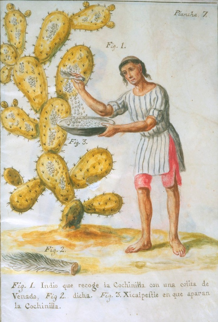 "Indian Collecting Cochineal with a Deer Tail" from Memoria sobre la naturaleza, cultivo, y beneficio de la grana (. . .). Colored pigment on vellum.